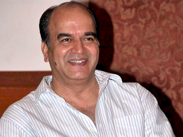 Surendra Pal at 5th Bhojpuri Film Awards press conference